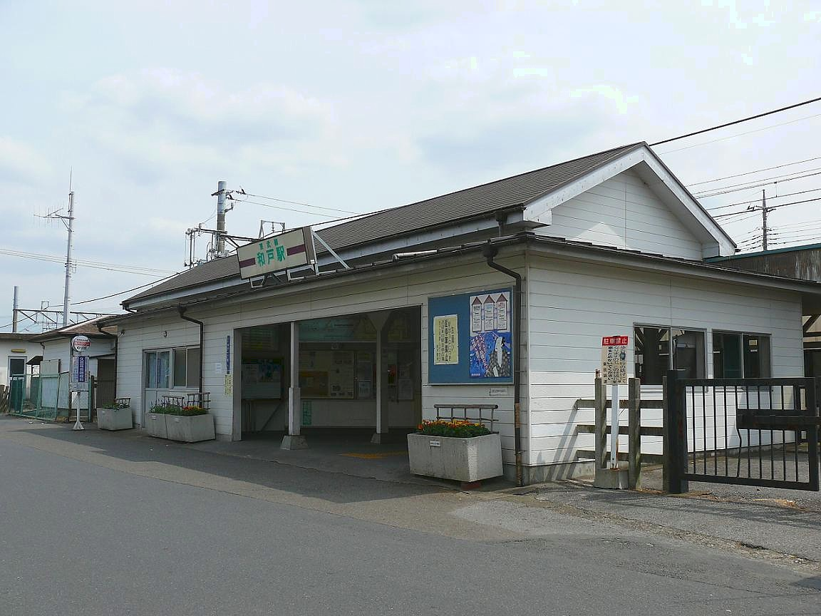 Wado Station on the Tobu Isesaki Line in Saitama Prefecture, Japan